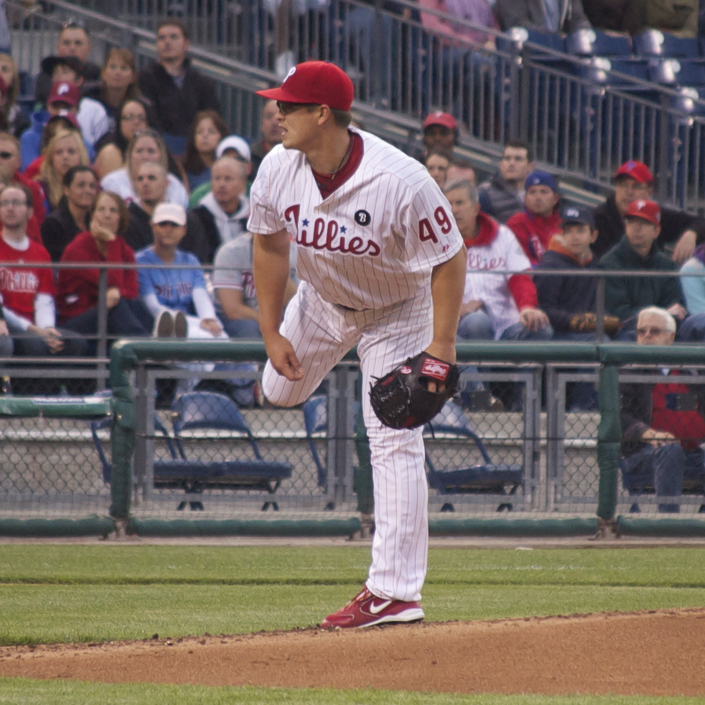 Vance Worley, pitching for the Philadelphia Phillies on April 29, 2011, looks to home plate after throwing a pitch.